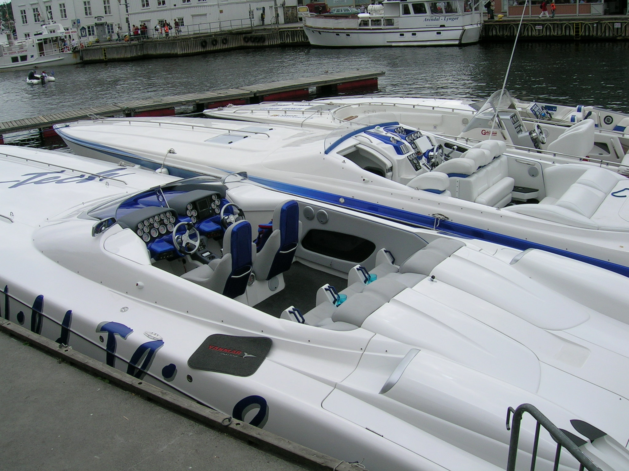 Nor-Tech Hi-Performance boats in Pollen Arendal - 2004